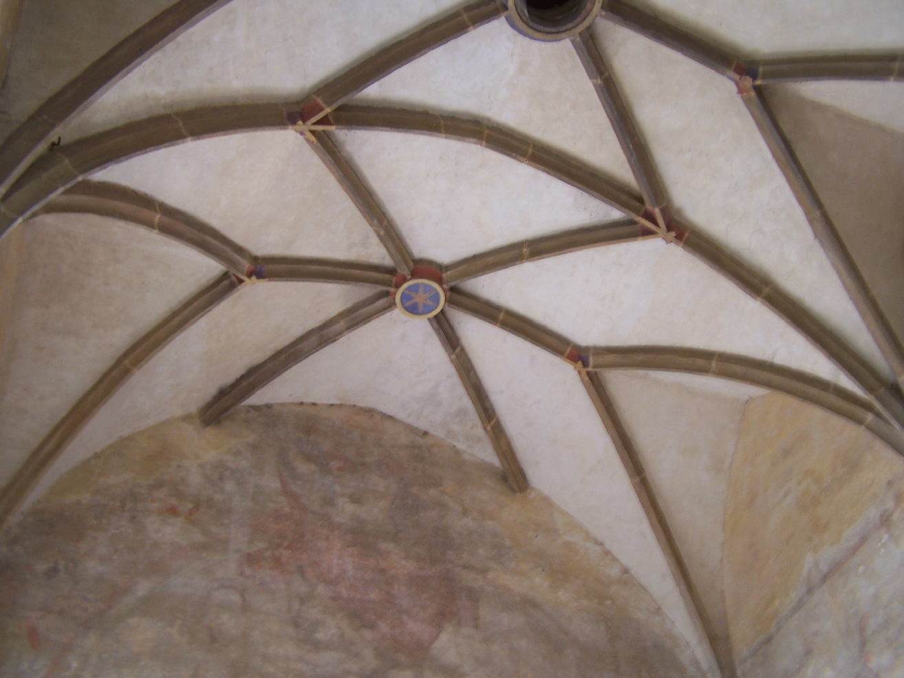 Details in the Liborius chappel.